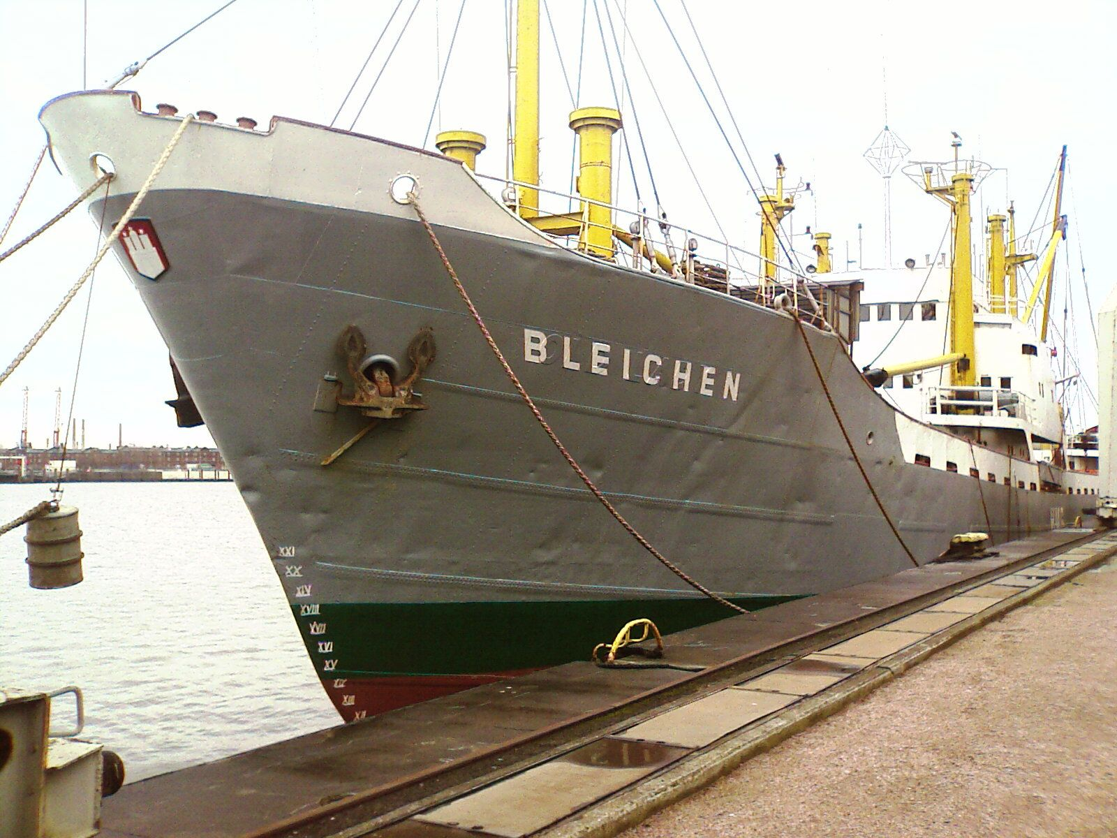 MS Bleichen in the Hansa-Hafen in Hamburg